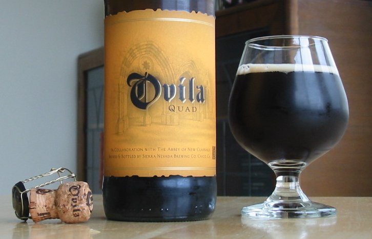 Bottle and glass of Ovila Abbey Quad, one of the products of Sierra Nevada Brewing Company. Proceeds from the sale of the beer go to help the Abbey of New Clairvaux in Vina, California, to rebuild an old Spanish monastery chapter house originally taken from Santa María de Óvila in Trillo, Spain, by William Randolph Hearst in 1931 but then dumped in San Francisco for many decades.